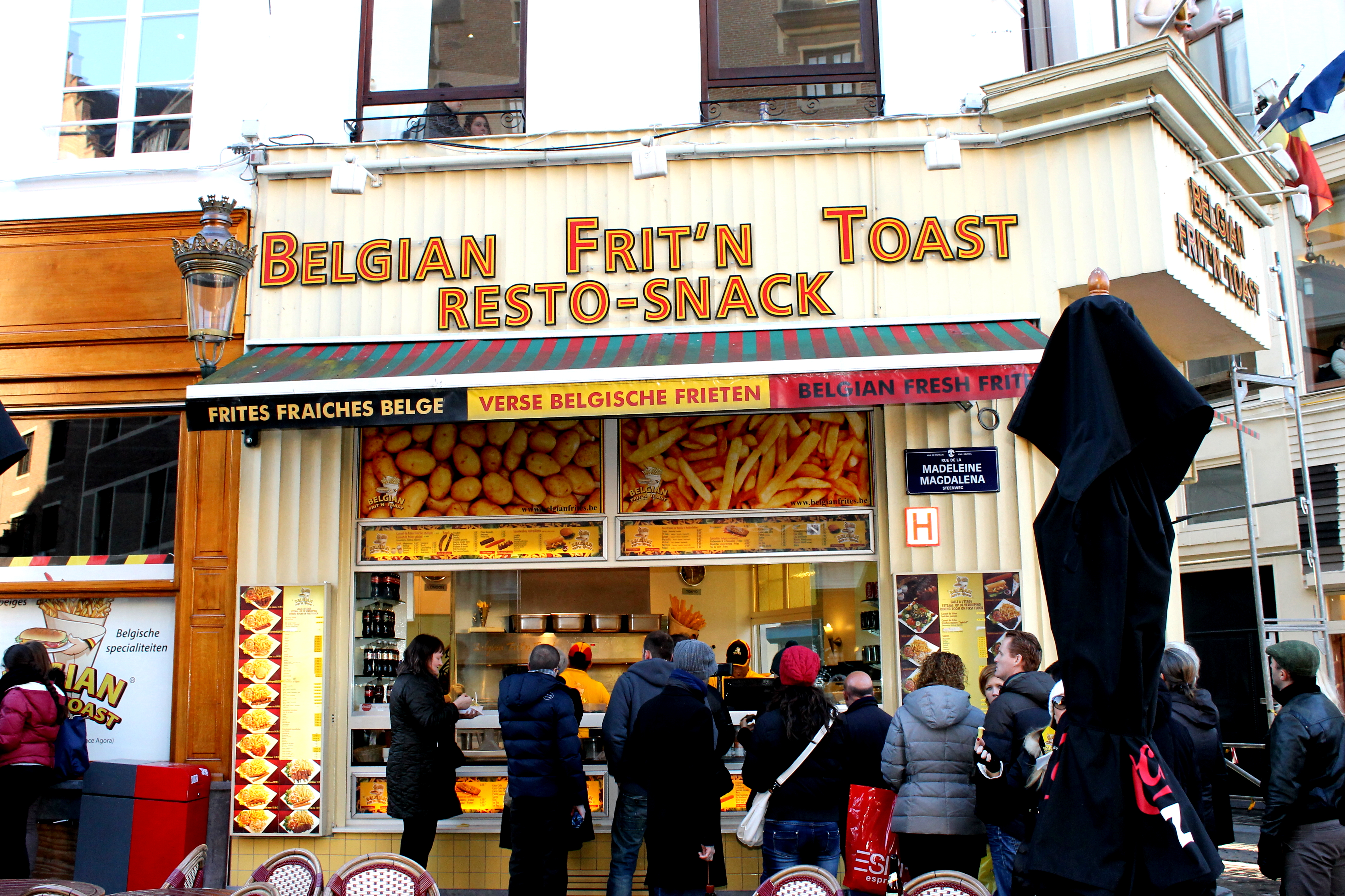 Friterie in Brussels